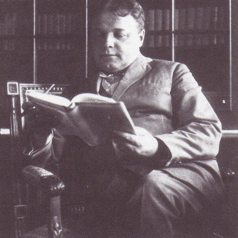 Photography of Josef Nadler